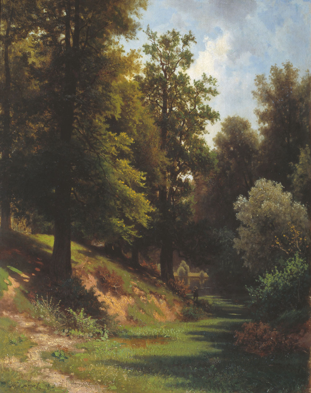 Forest by Lev Kamenev.